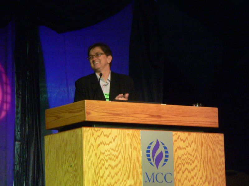 Nancy Wilson 2007